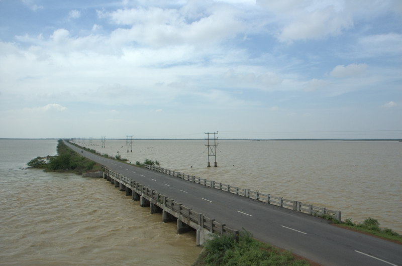 The Road to Outer Space (Sriharikota)